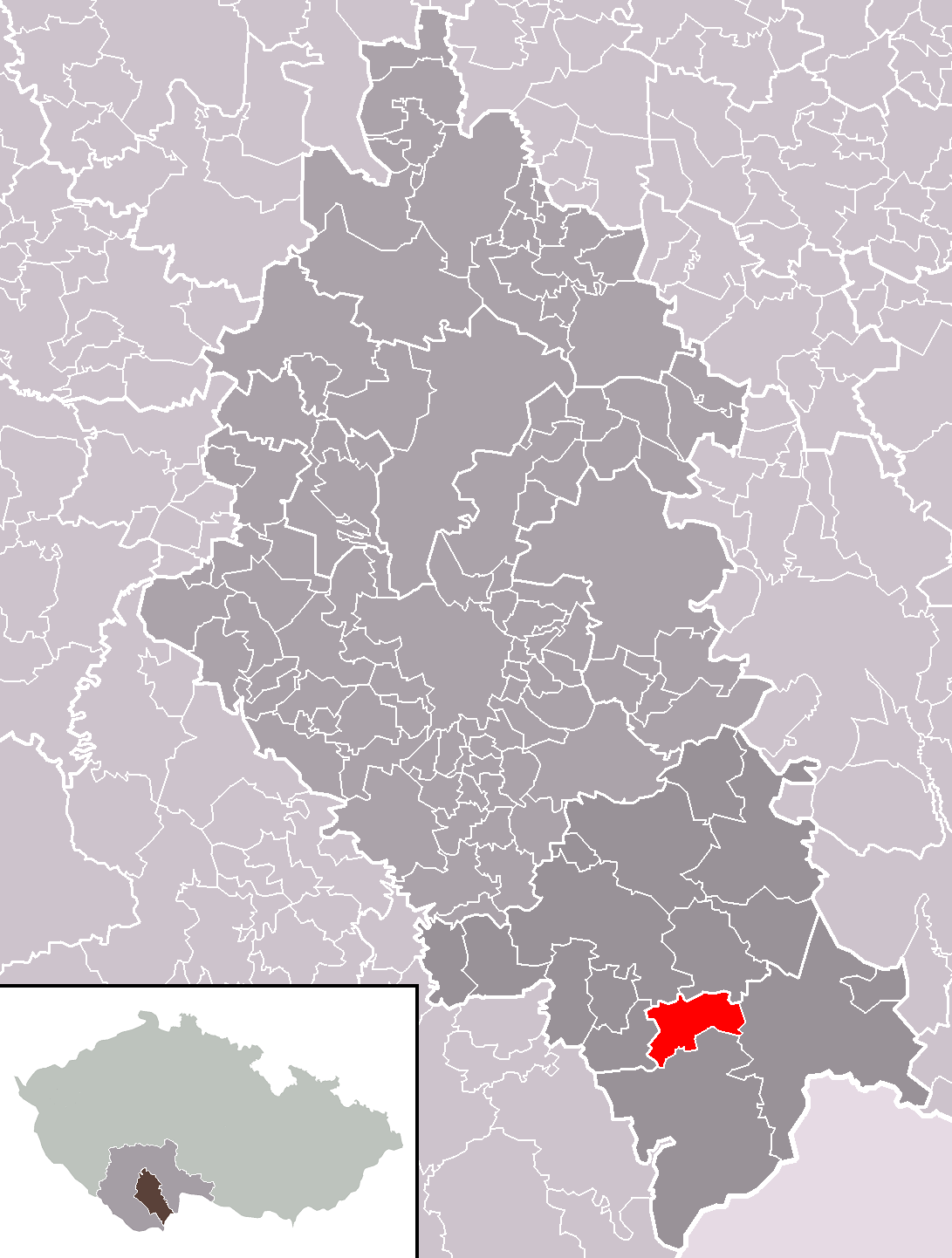 Location of Žár municipality within České Budějovice District and administrative area of Trhové Sviny as a Municipality with Extended Competence.